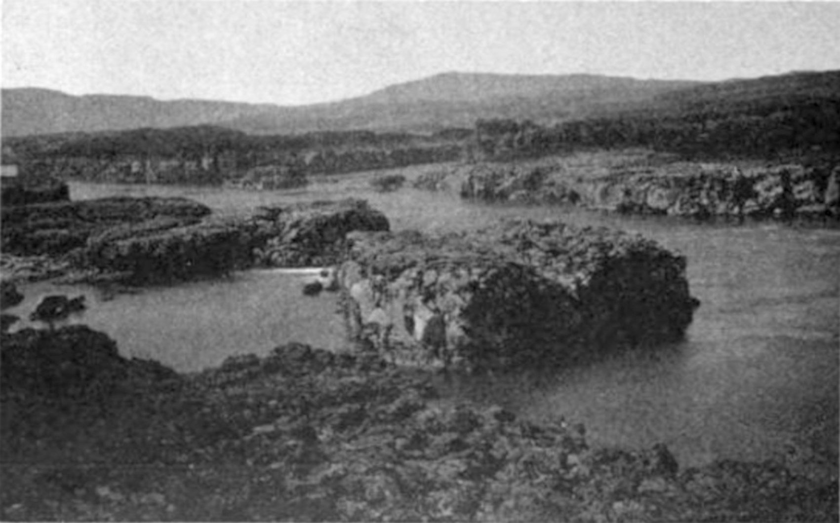 Grand Dalles of the Columbia from Horner (1919)